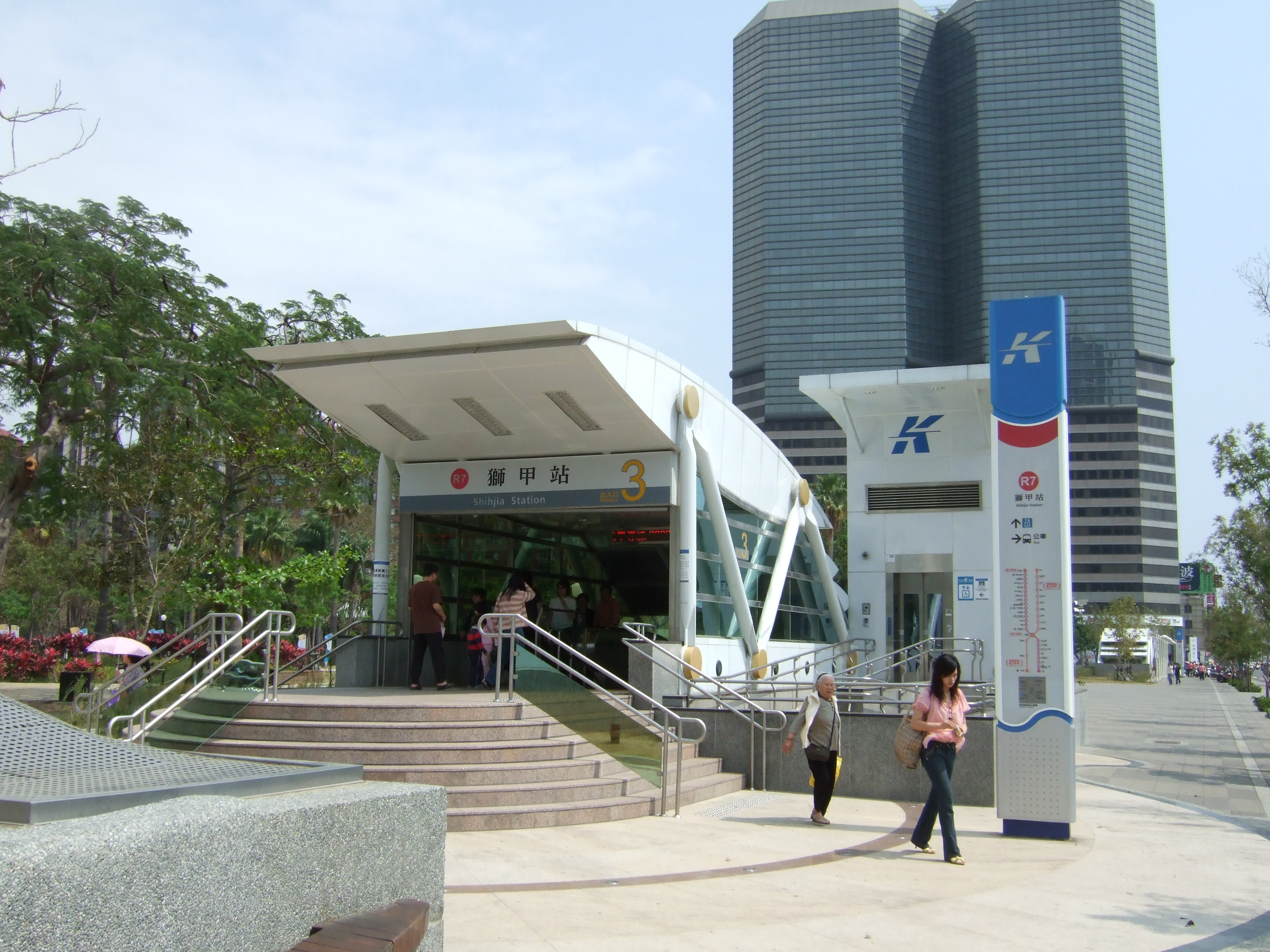 Kaohsiung MRT Shihjia Station Exit 3 and Bao Chen Enterprise Building.